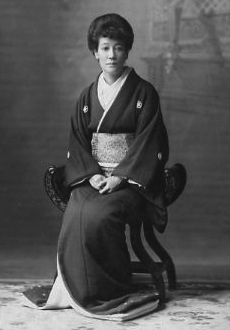 Princess Sutematsu Ōyama (1860–1919) in her late years.